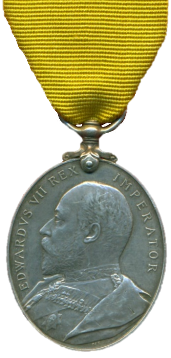 British long service medal awarded to part-time mounted army units, 1904-1908